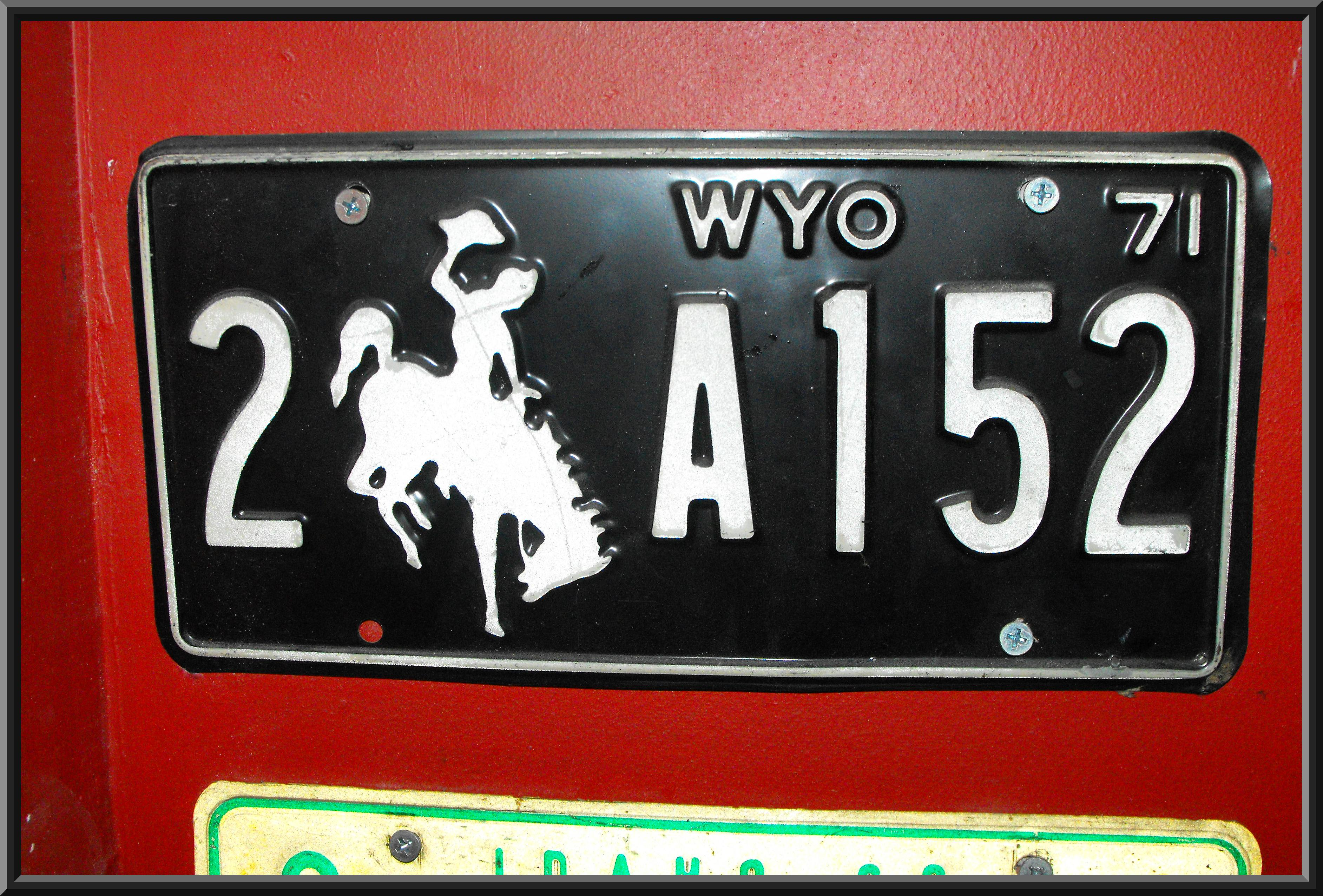 Trash Bar Old Licence Plate Collection